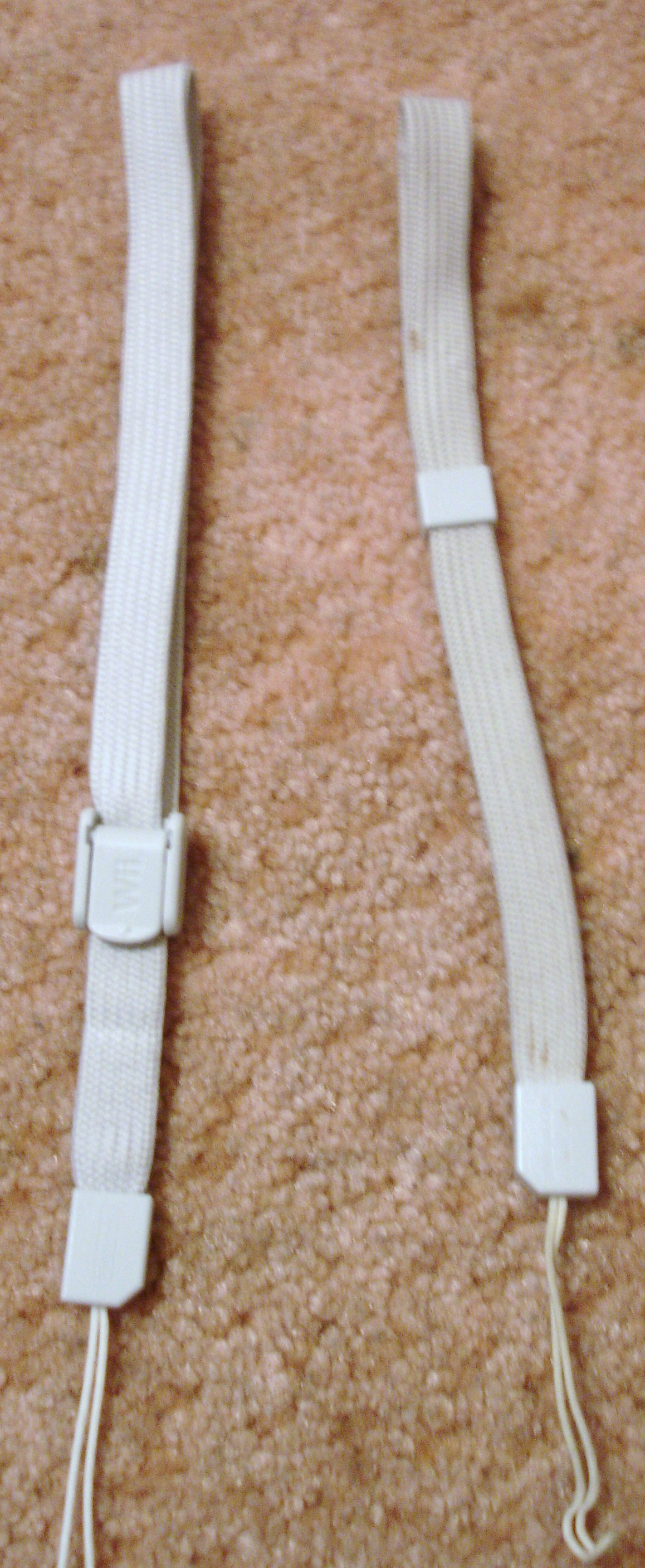 The improved safer Wii strap on the left with the click strap, and the normal strap on the right.